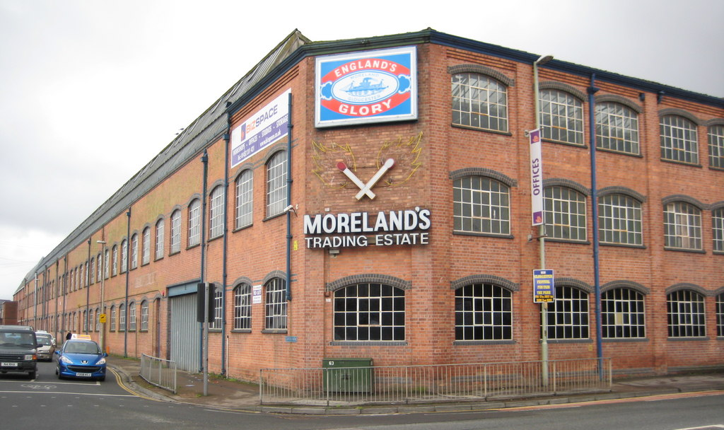 Moreland's Trading Estate